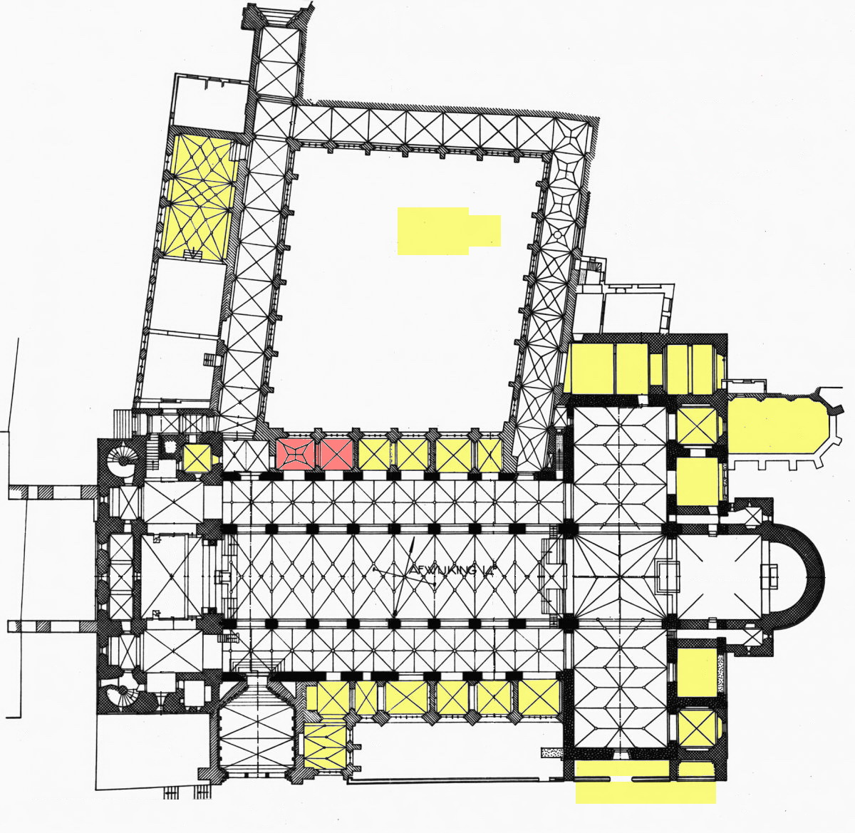 Locator map of chapels of the Basilica of Saint Servatius in Maastricht, the Netherlands. This map by an unknown author was first published in 1926 in Van Nispen tot Sevenaers De monumenten in de gemeente Maastricht, Deel 1, and donated to Wiki Commons by Rijksdienst voor het Cultureel Erfgoed on 7 January 2013. All colouring and other edits are by Kleon3. In yellow all 17 chapels of Sint-Servaasbasiliek in past and present. In red the chapel of the Holy Heart of Jesus, the western most of the north aisle chapels.